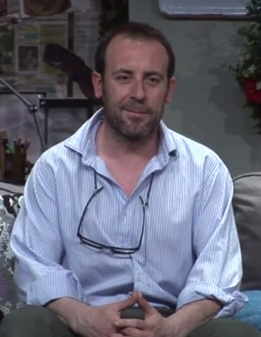 Spanish Actor Antonio Molero